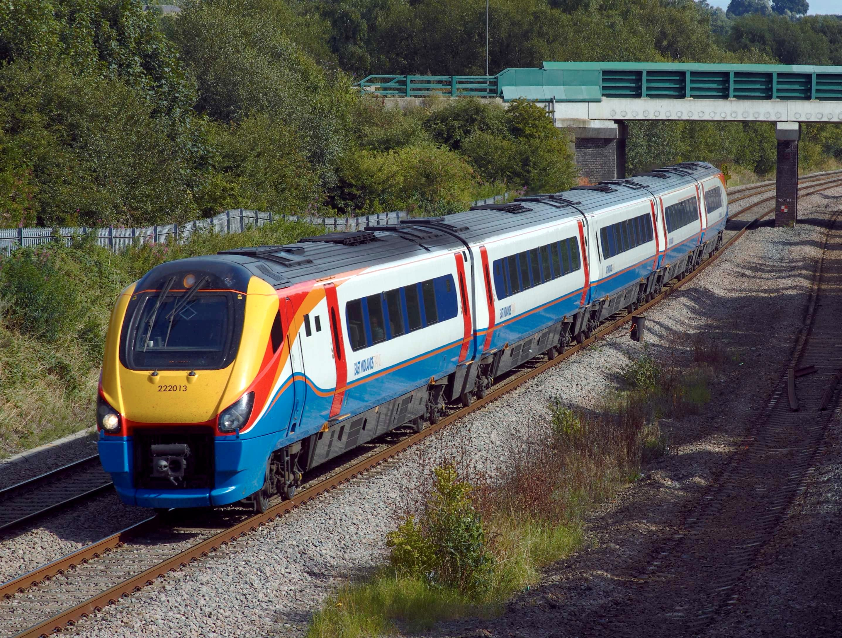 222013 North Wingfield